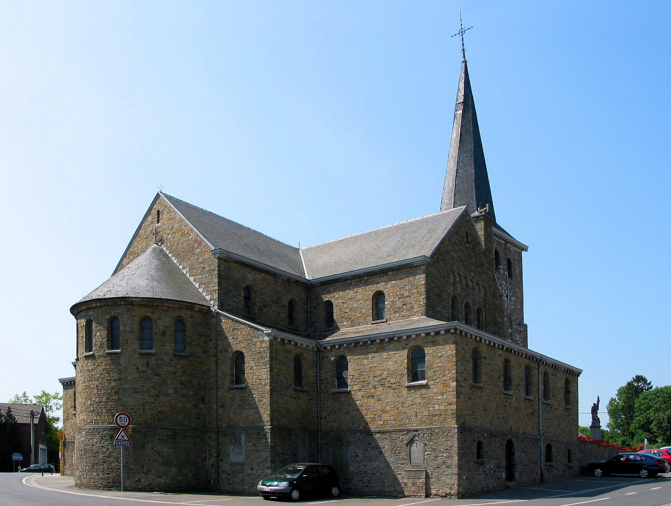 Verlaine (Belgium), the Saint Remigius' church.